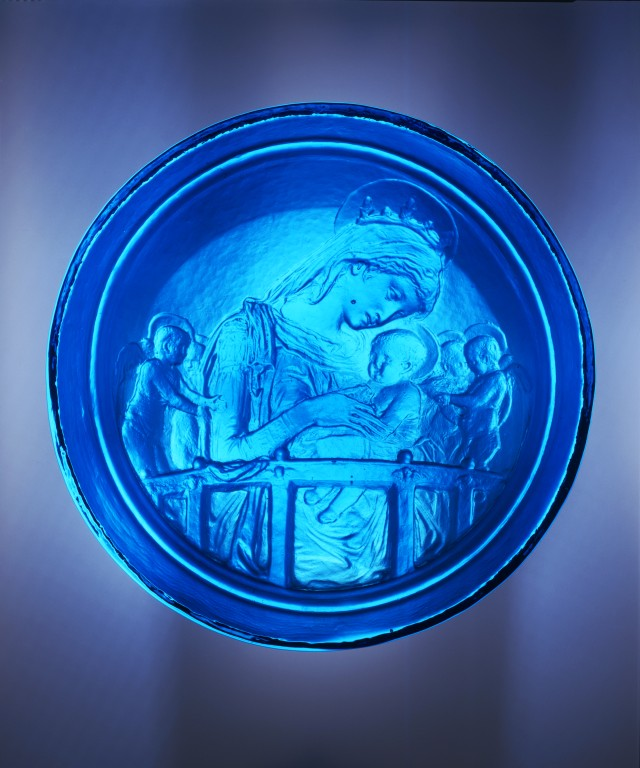 Glass mould of The Virgin and Child with Four Angels, before 1456, Donatello V&A Museum no. A.1-1976 Techniques - Gilded bronze Place - Florence, Italy Dimensions - Diameter 28.3 cm, Depth 2.7 cm